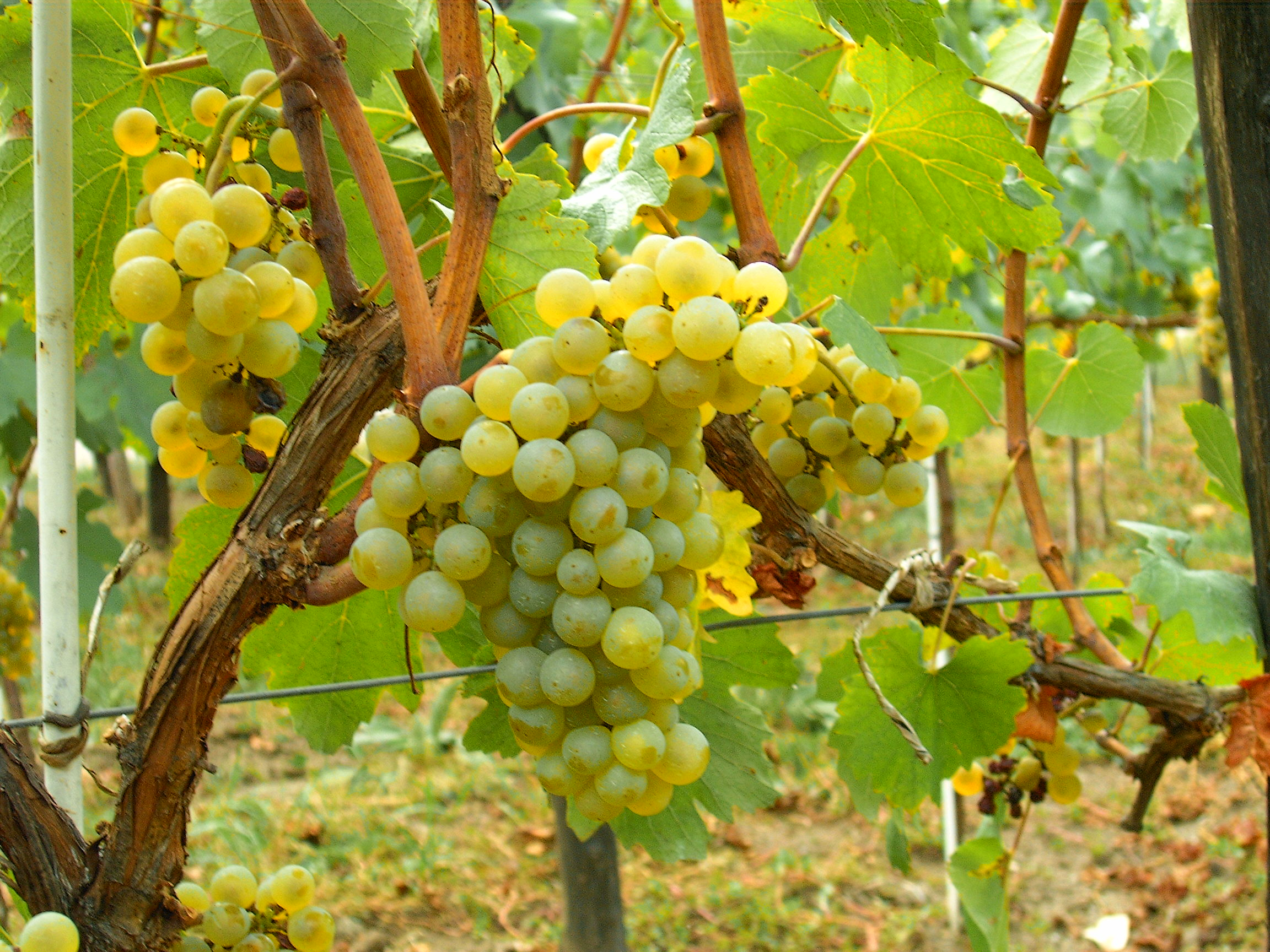 Constantin Stratan